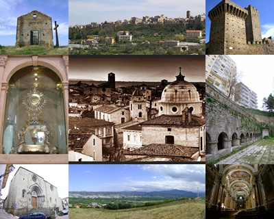 Lanciano